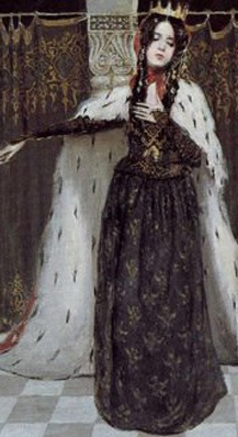 Isabella I of Armenia (r.1219-1252)